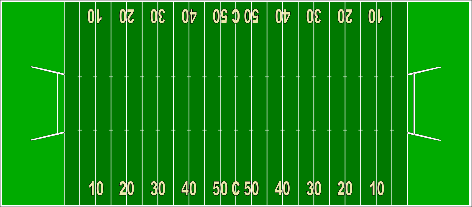 Outline of a canadian football field. PNG image created with Inkscape v0.43 under Windows XP. The type of license has been modified since first version.